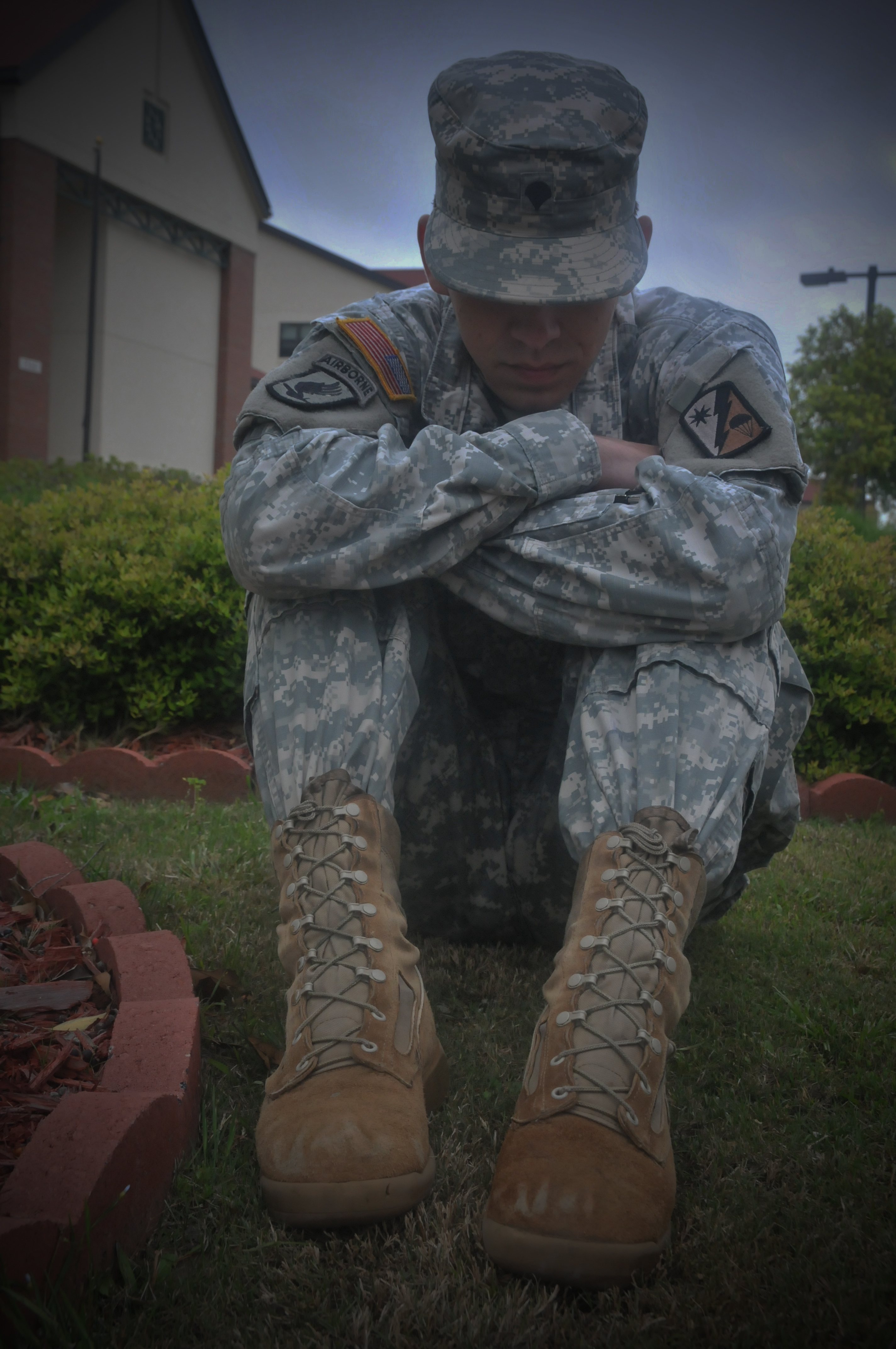 Veterans and their loved ones can also call the Veterans Crisis Line at 1-800-273-8255, chat online at or send a text message to 838255 to receive confidential support 24 hours a day, seven days a week, 365 days a year. You can also contact medical personnel, military family life consultants or chaplains to assist you. If you know someone who is contemplating suicide, do not be afraid to take the step and ask them the question. It may save a life.